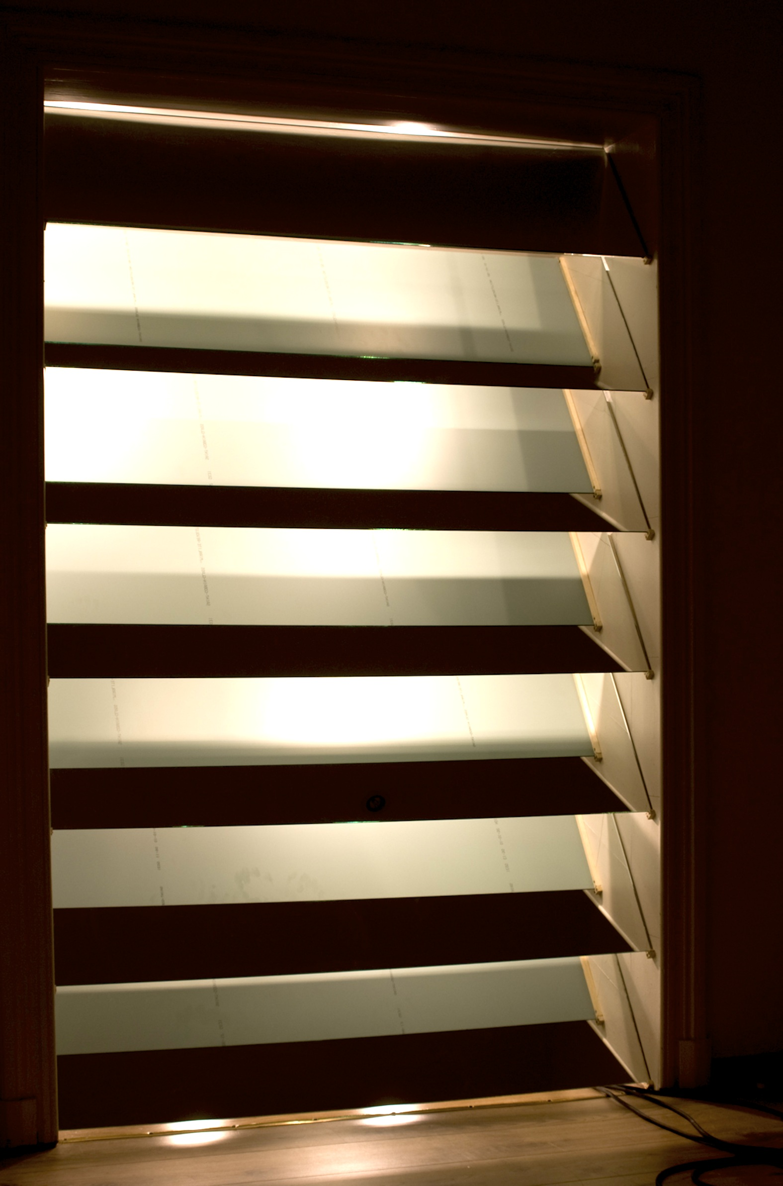 Quantum Police Detention Room entrance brussels